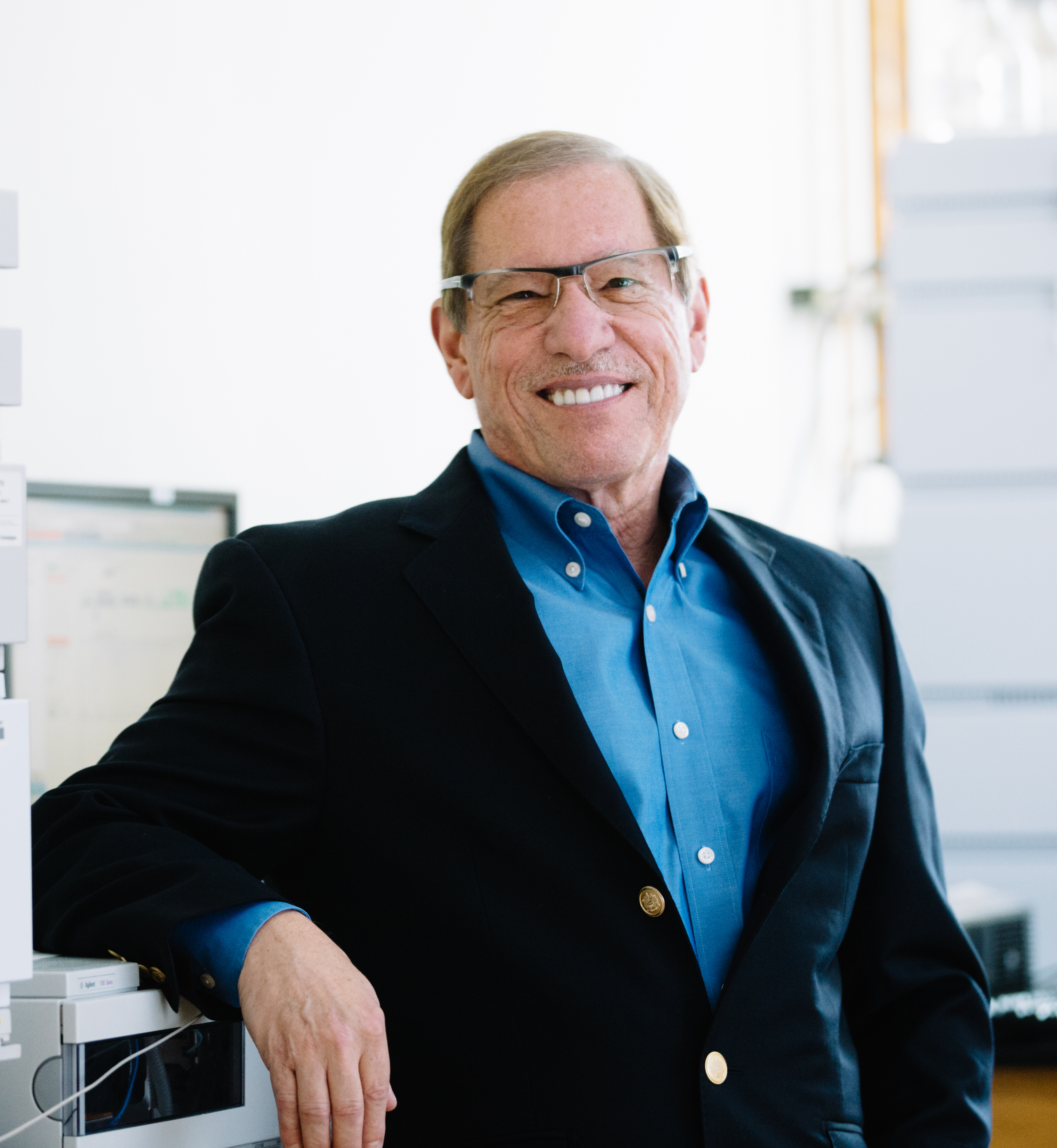 Professor Dennis C. Liotta in one of his laboratory spaces at Emory University